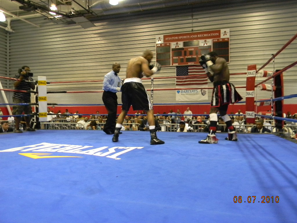 Super middleweights Lennox Allen and Darnell Boone fight to a draw at Aviator Arena